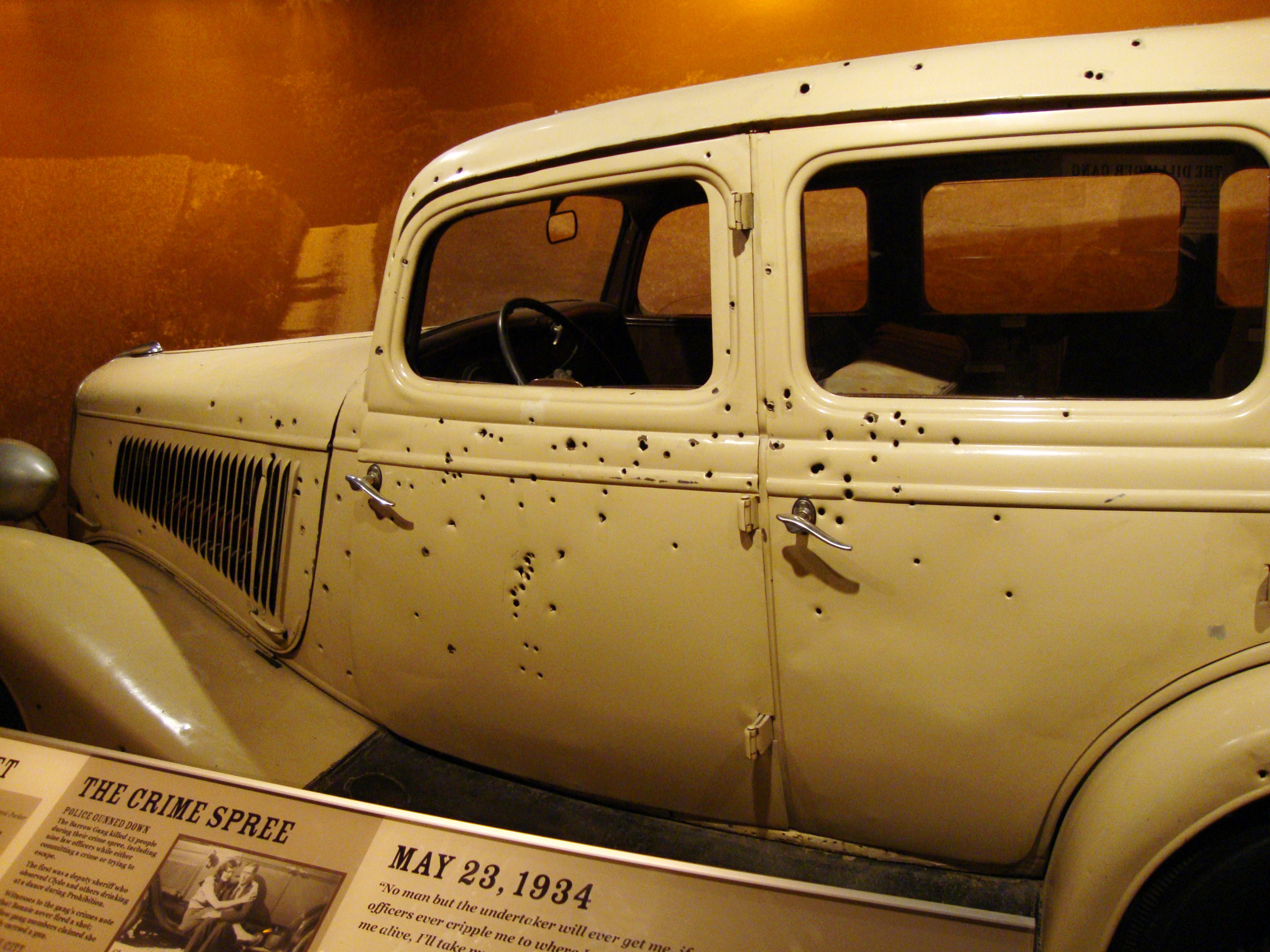 Replica of the Ford V8 in which Bonnie and Clyde died, made for the the film Bonnie and Clyde, on display at the National Museum of Crime & Punishment, Washington, D.C.